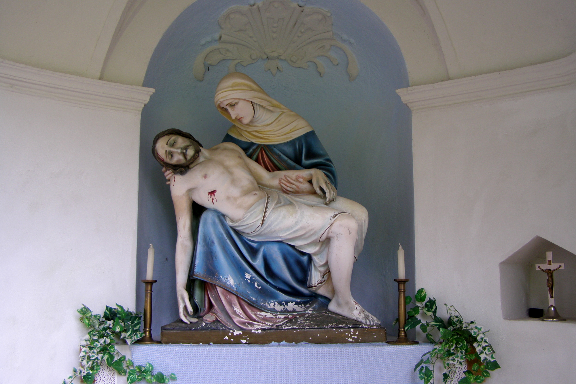 Dobrá Voda – Pozďátky (Slavičky) part. Pieta